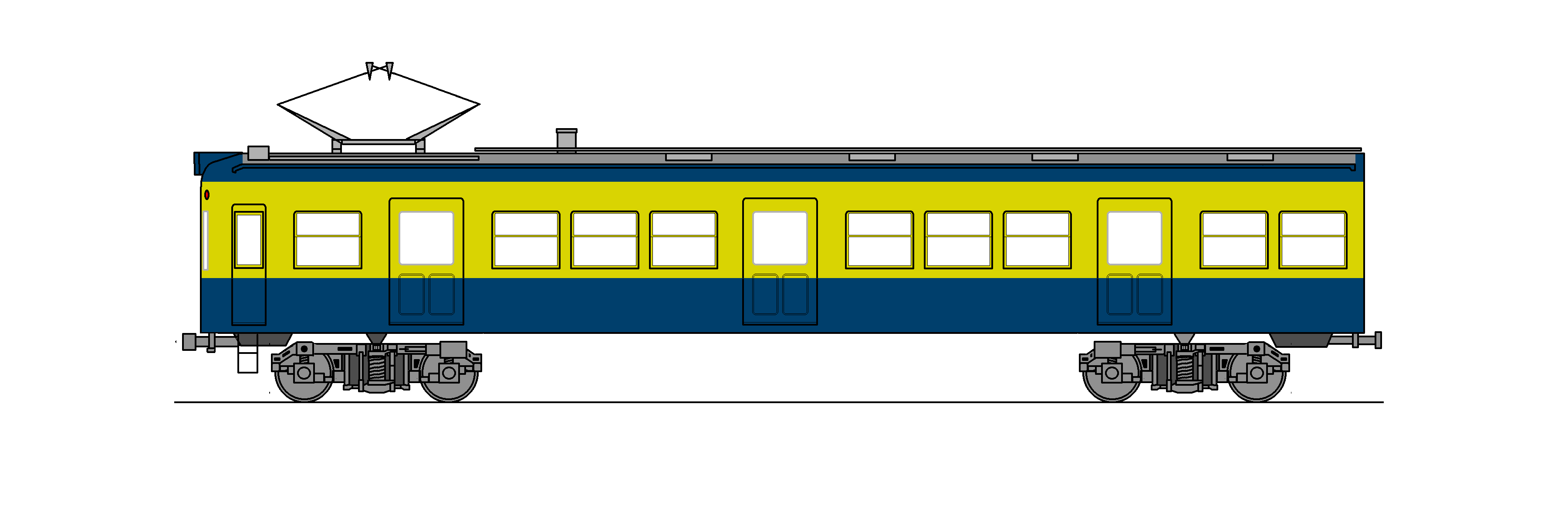 The side view of the EMU series 2200 of Odakyu Electric Railway.